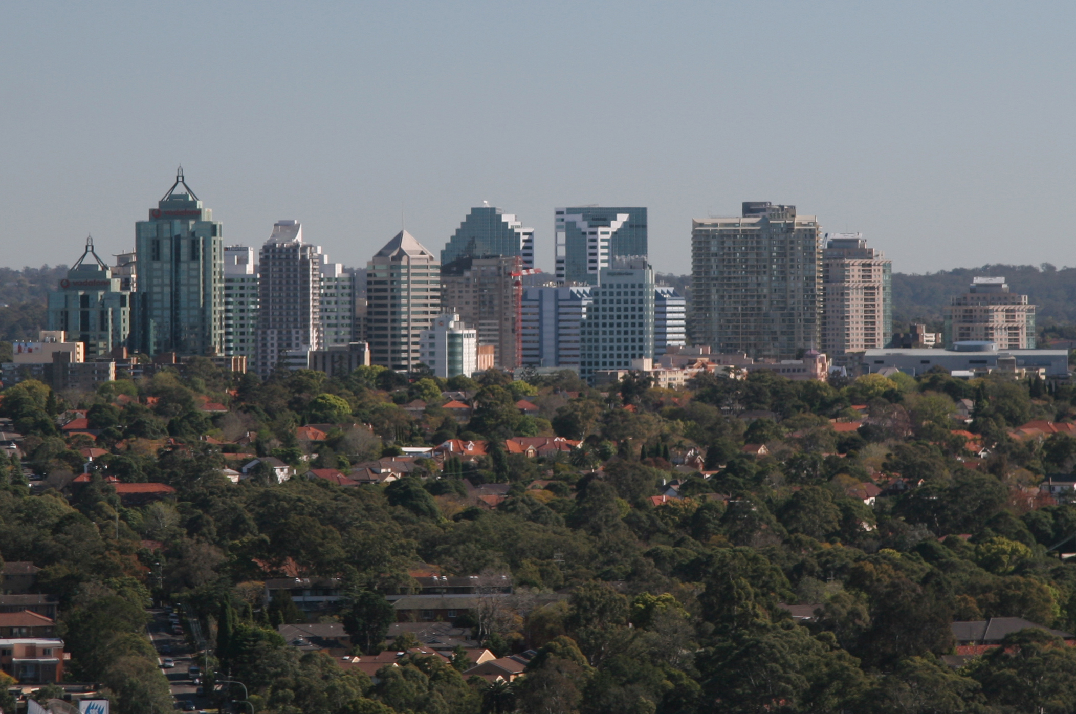 Skyline of Chatswood, NSW Australia. Facing north. Taken 4 September 2006.